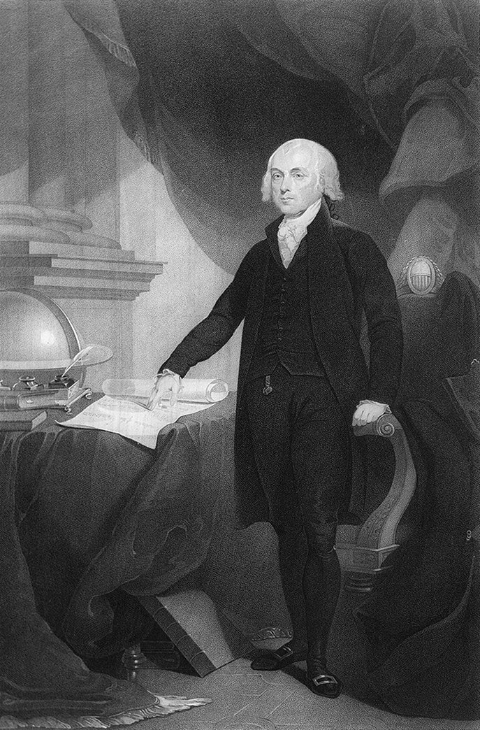 stippling engraving of James Madison, President of the United States, done between 1809 and 1817 by David Edwin.